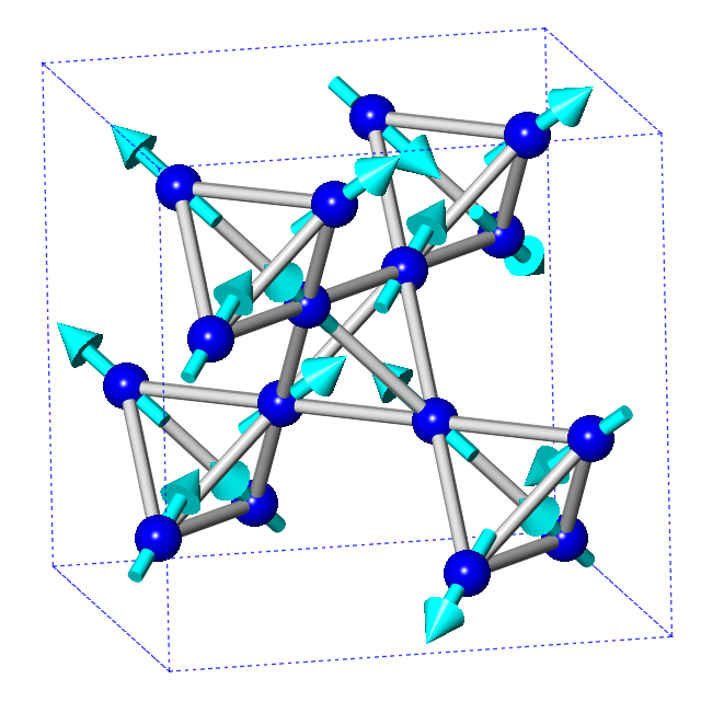 Portion of the pyrochlore lattice showing magnetic moments (arrows) obeying the two-in, two out spin ice rule.